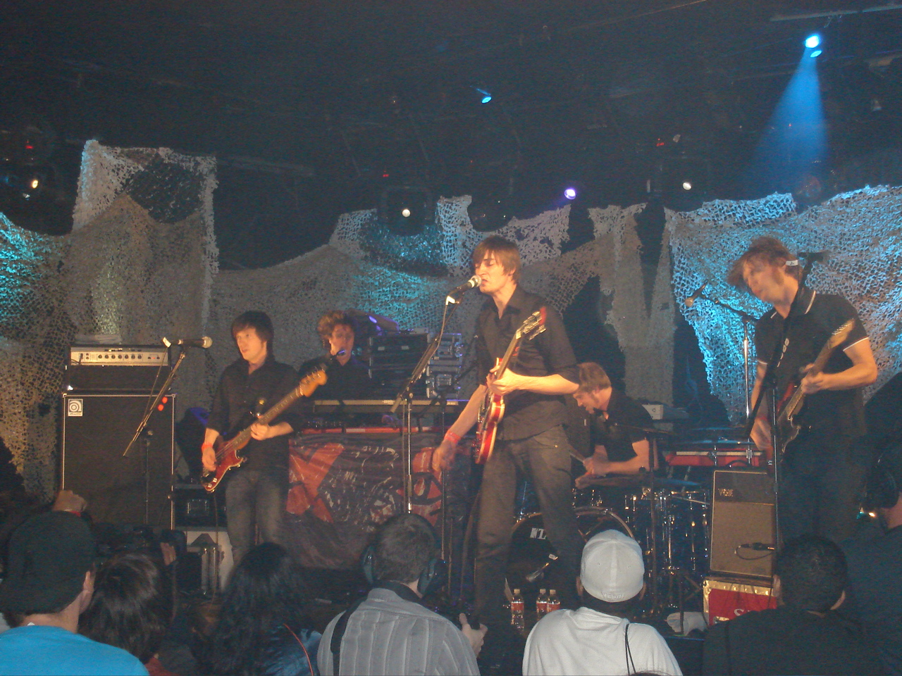 Friday afternoon at La Zona Rosa